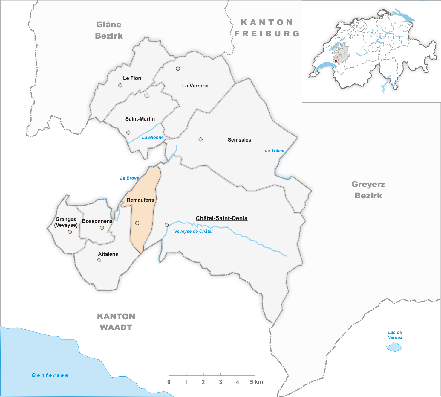 Municipality Remaufens